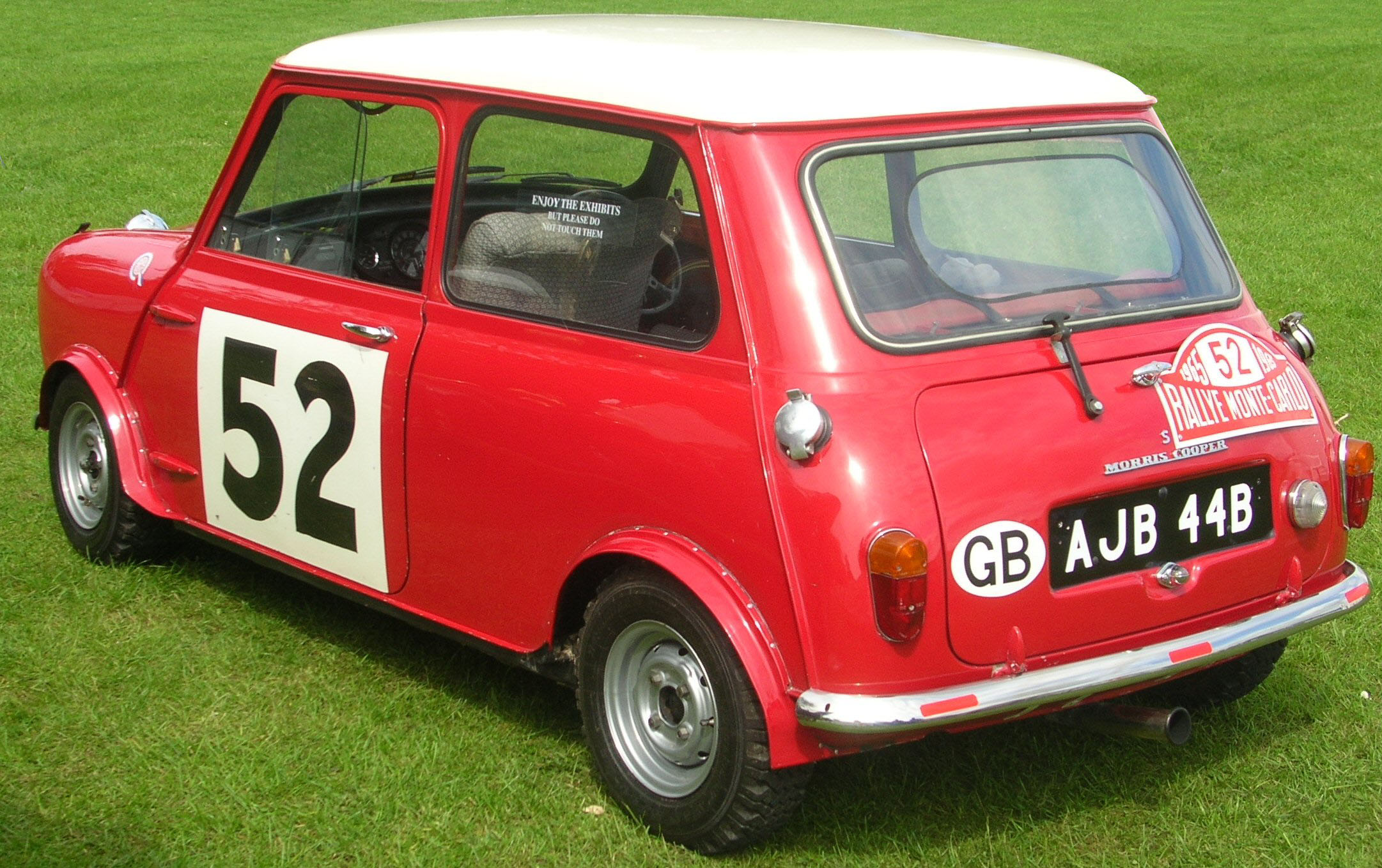 A 1964 Morris Mini Cooper S. This car, which was one of the cars prepared by the BMC competitions department, won outright victory in the 1965 Monte Carlo. It was crewed by Timo Mäkinen and Paul Easter. This vehicle is kept at the Heritage Motor Centre, Gaydon, UK.